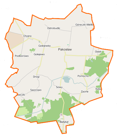 Map of Gmina Pakosław, Poland This map of Pakosław (gmina) was created from OpenStreetMap project data, collected by the community. This map may be incomplete, and may contain errors. Don't rely solely on it for navigation. Border coordinates51.657216.9704←↕→17.128051.5414